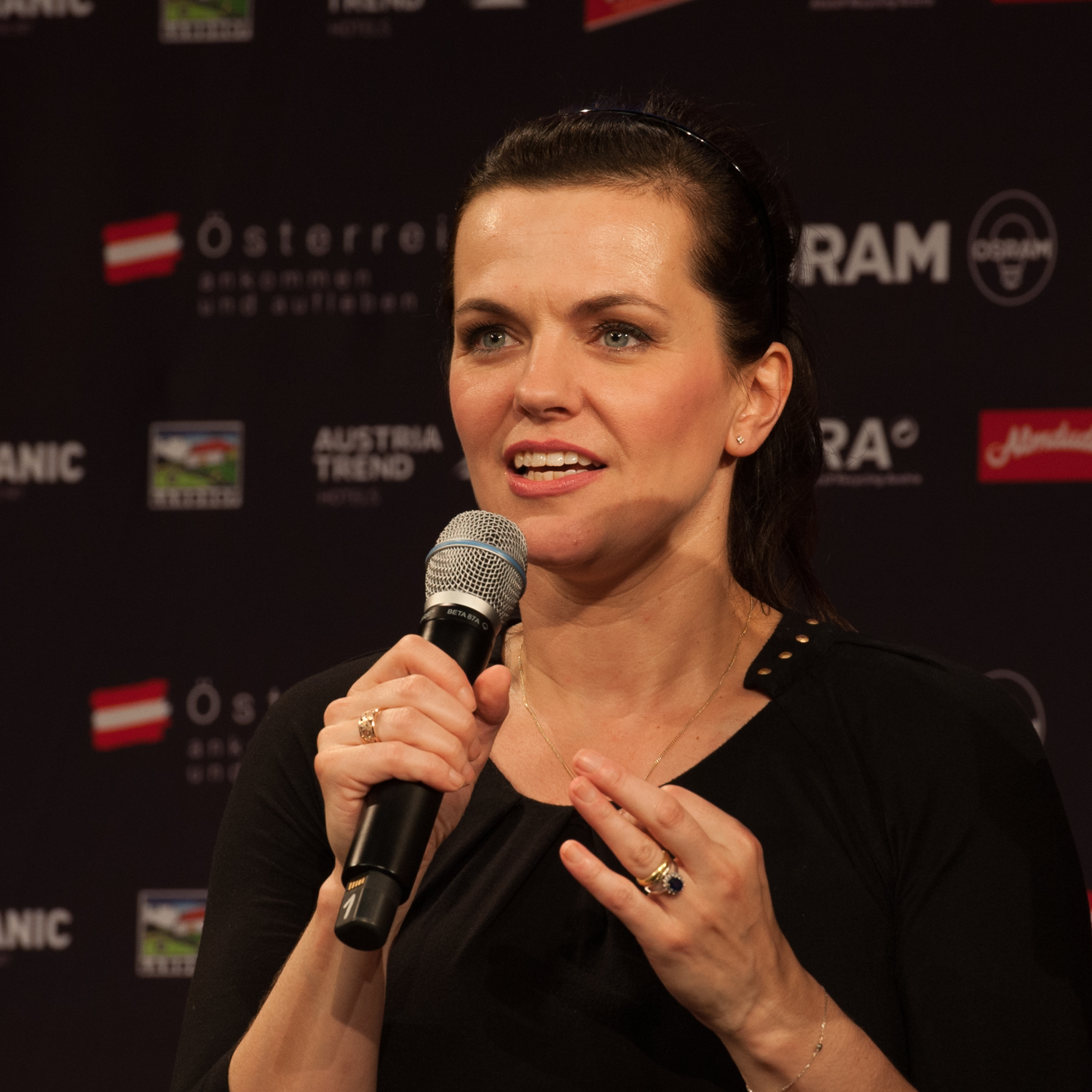 Eurovision Song Contest Vienna 2015: Marta Jandová